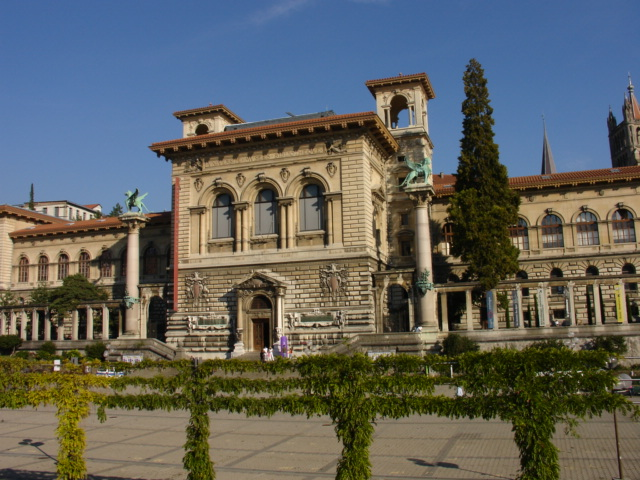 The Palais du Rumine in Lausanne, Switzerland Copying By Mark Jaroski. This image is free content. You may use it under the terms of any version of the Creative Commons By-sa license.